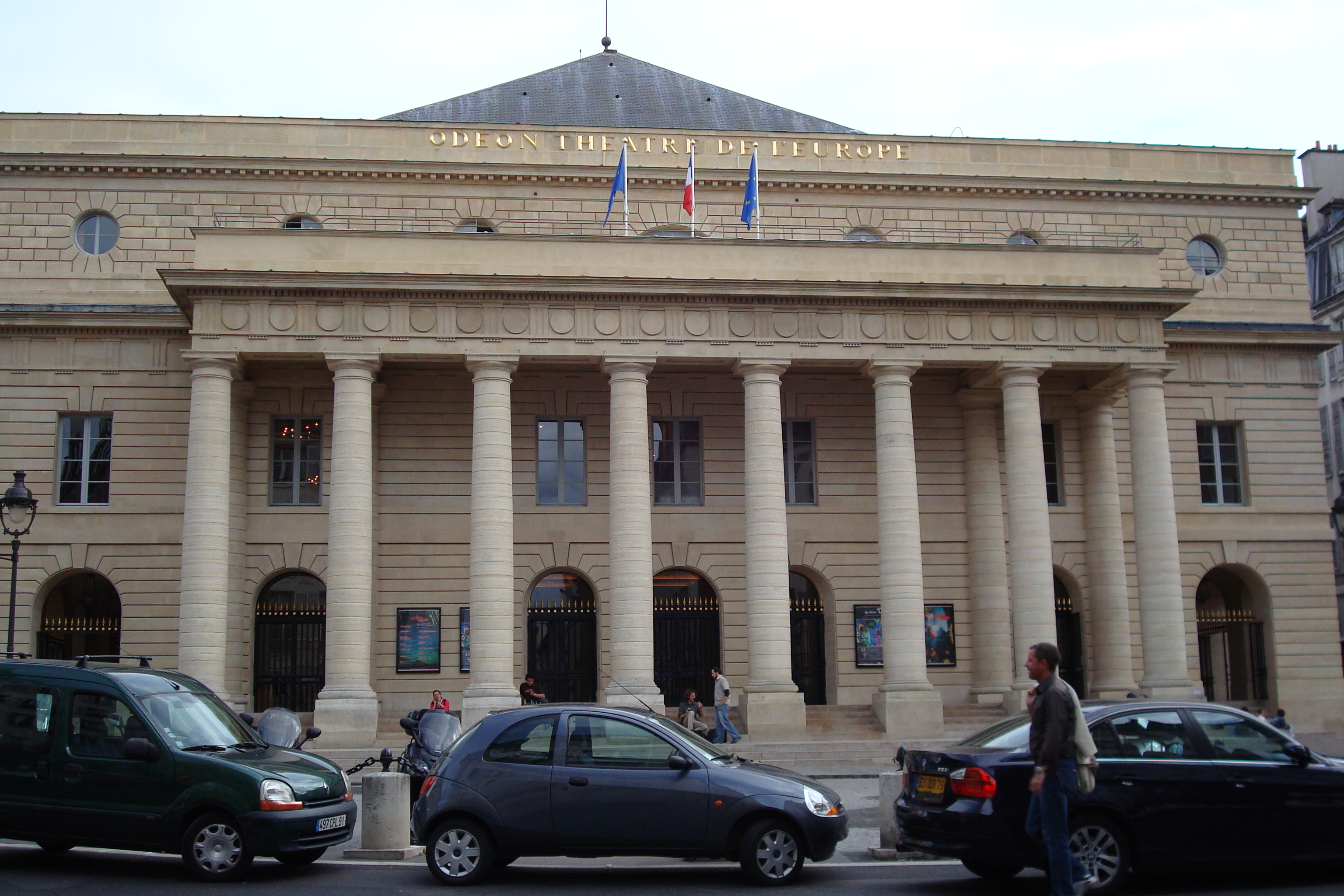 Odéon theatre in Paris, France